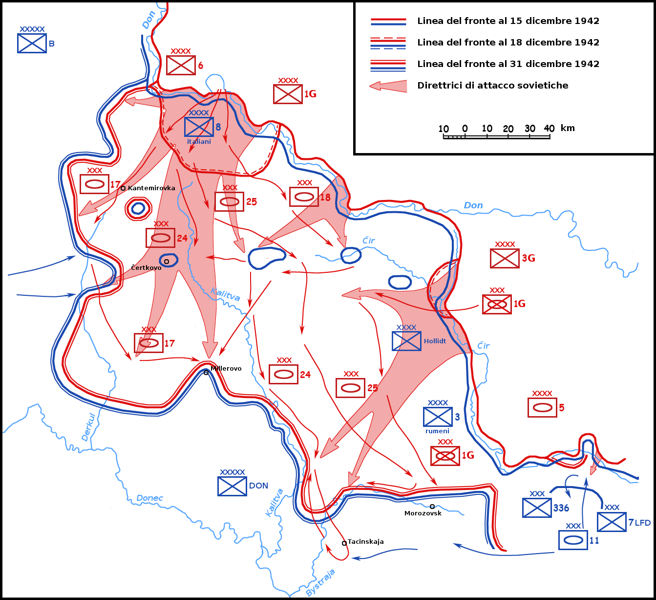 Operation Little Saturn. World War Two, Eastern front.